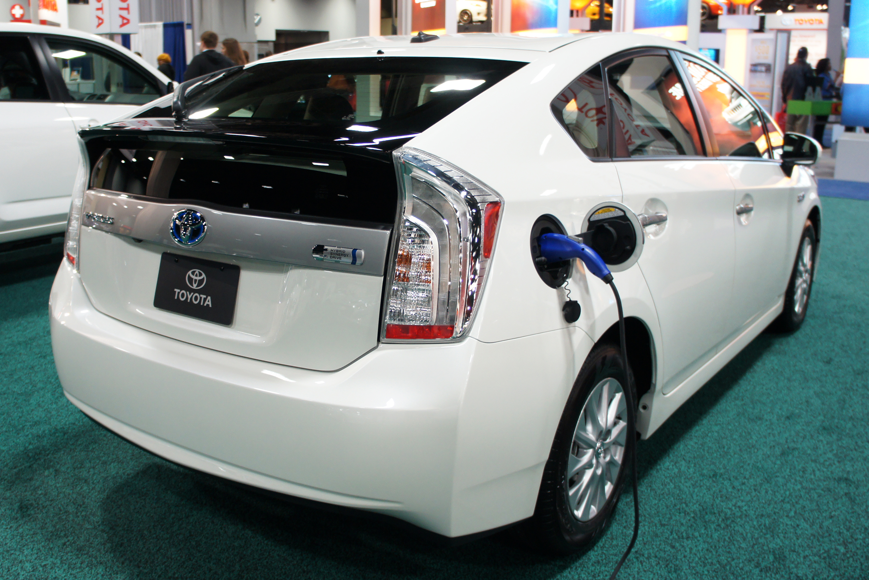 2012 Toyota Prius Plug-in Hybrid at the 2012 Washington Auto Show, District of Columbia.